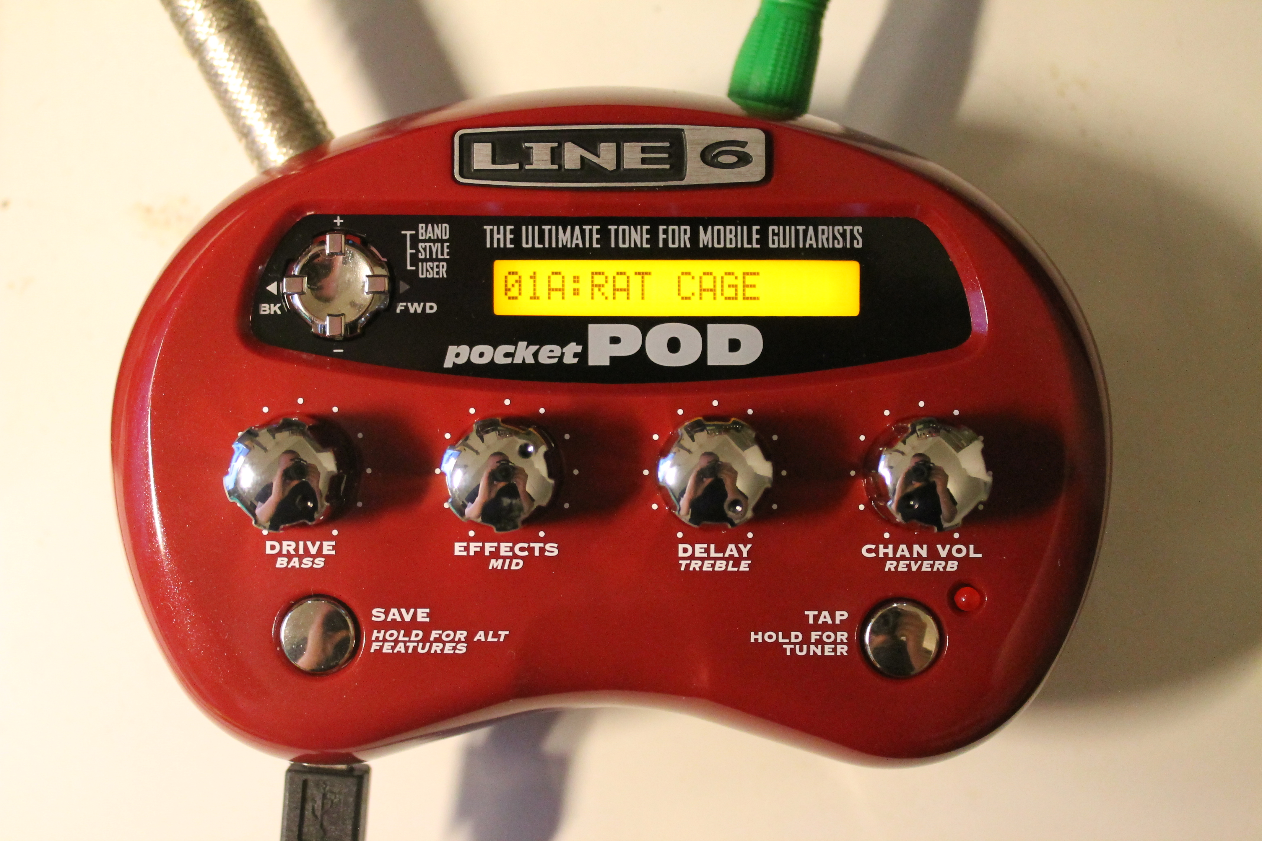 Line 6 Pocket Pod.